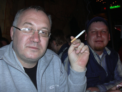 Ilya Kormiltsev. Year before his death. St.Petersburg. Справа от него - товарищ Штепа.